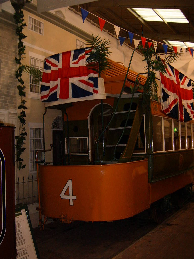 Blackpool Conduit 4 in the Exhibition Hall at Crich.